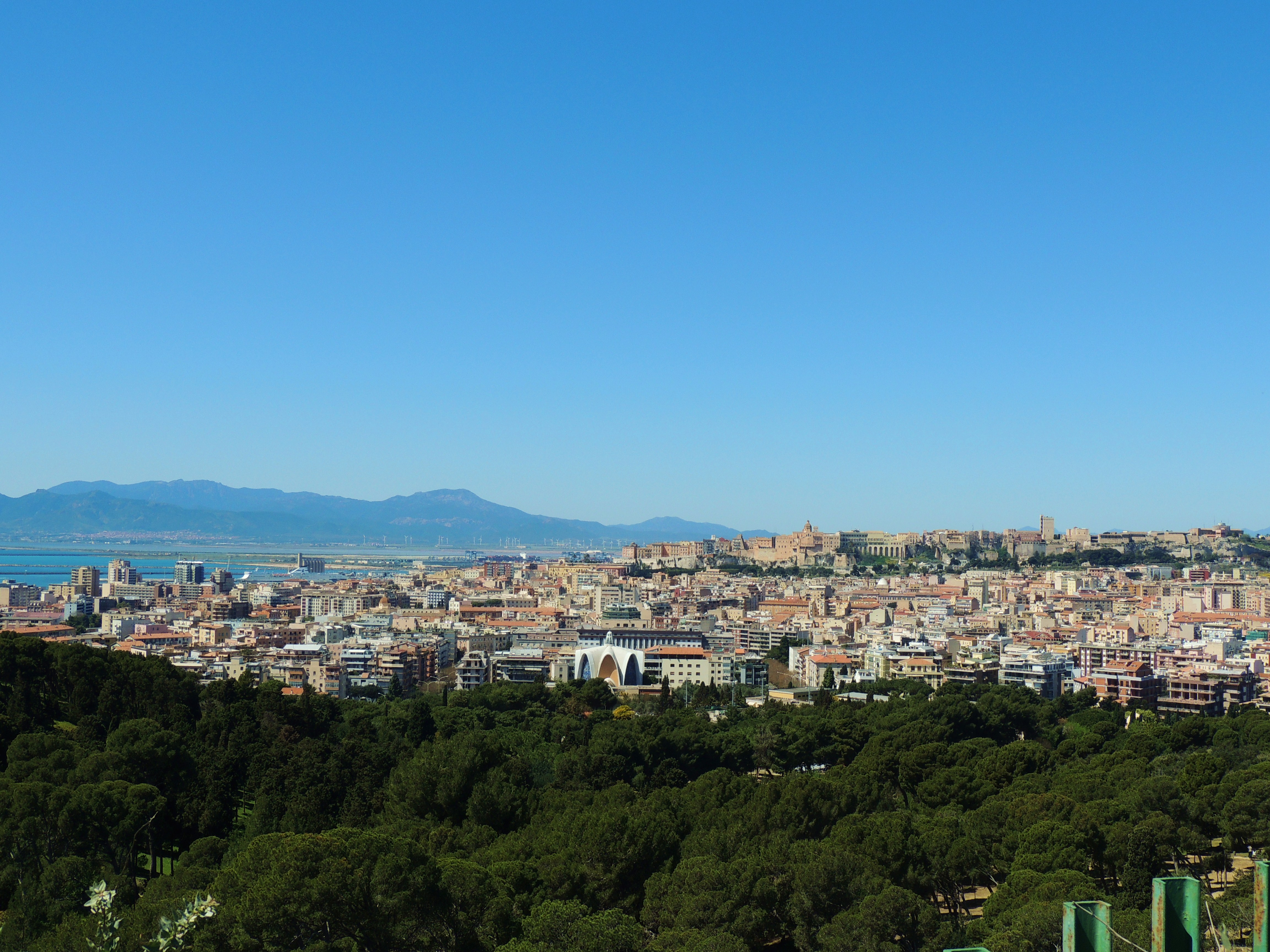 Cagliari, panorama from Monti Urpinu Park